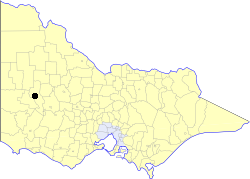 Location of the City of Horsham within Victoria.